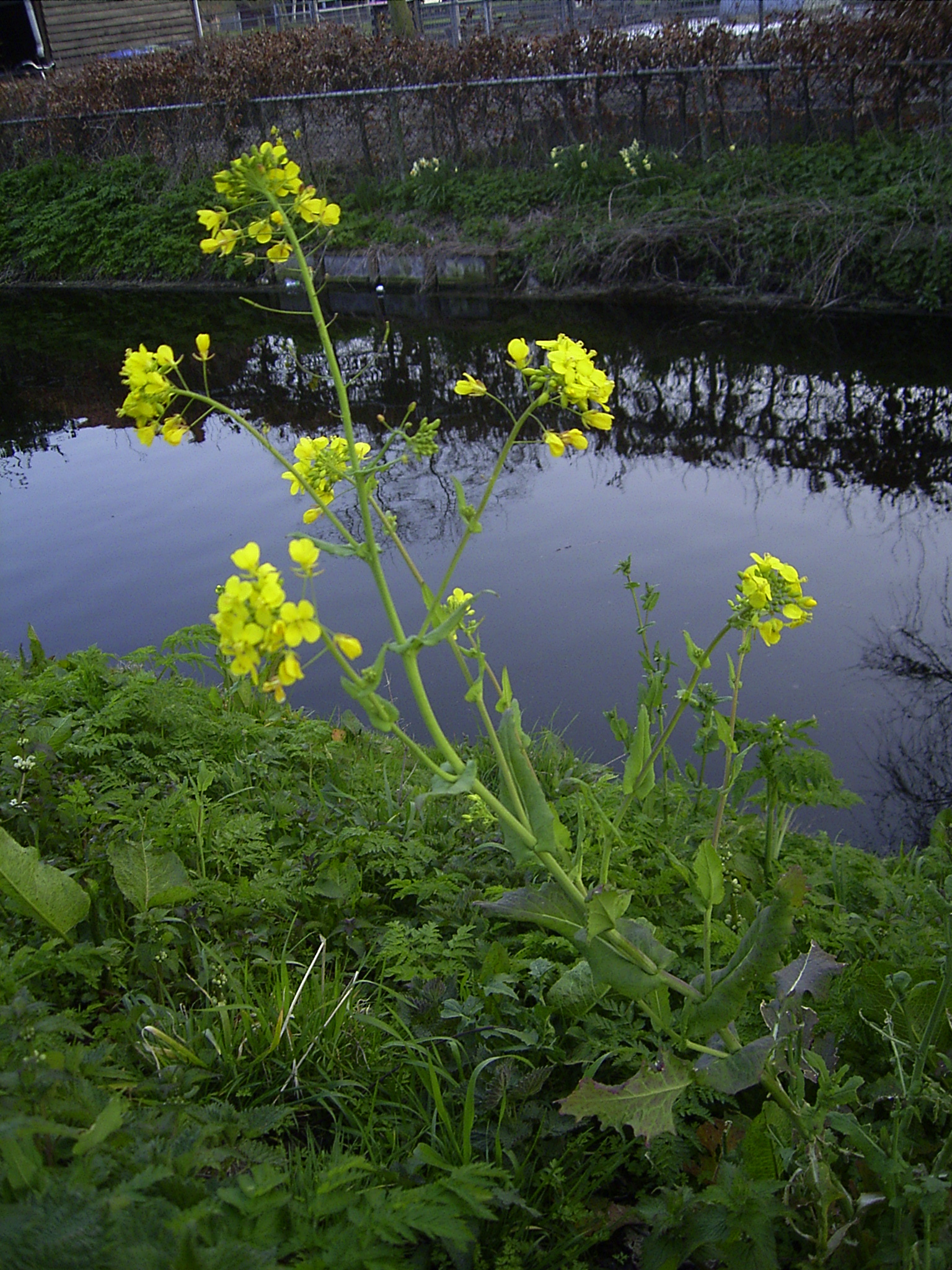 This pic shows a Brassica rapa. Its silhouet is clearly visible against the water, Zuiderpark, the Hague, Netherlands